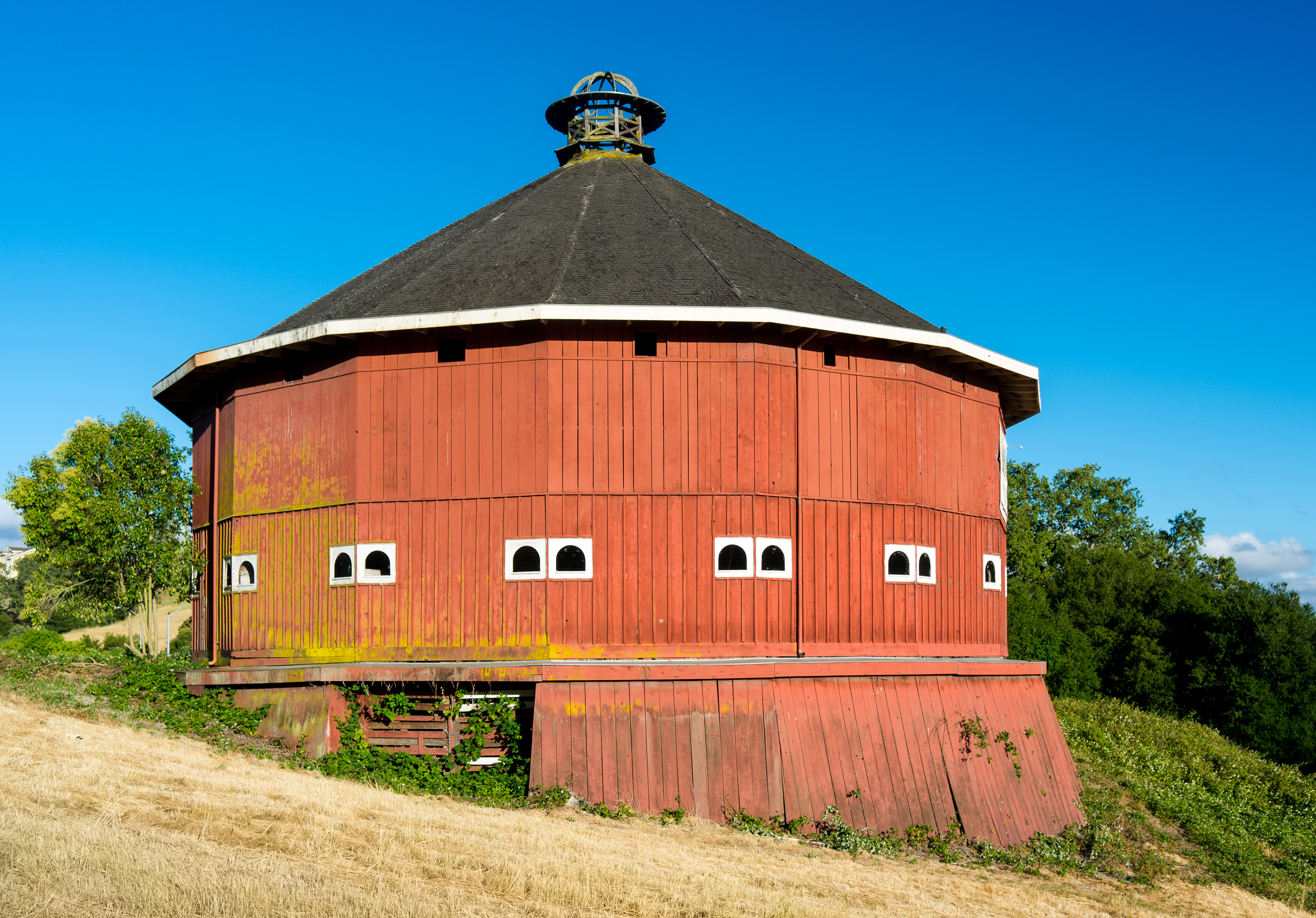 Round barn in Fountaingrove — Santa Rosa, Sonoma County, California. Built near the end of the 19th century, this was one of two surviving round barns in Santa Rosa until it was destroyed in a fire on October 9th, 2017.